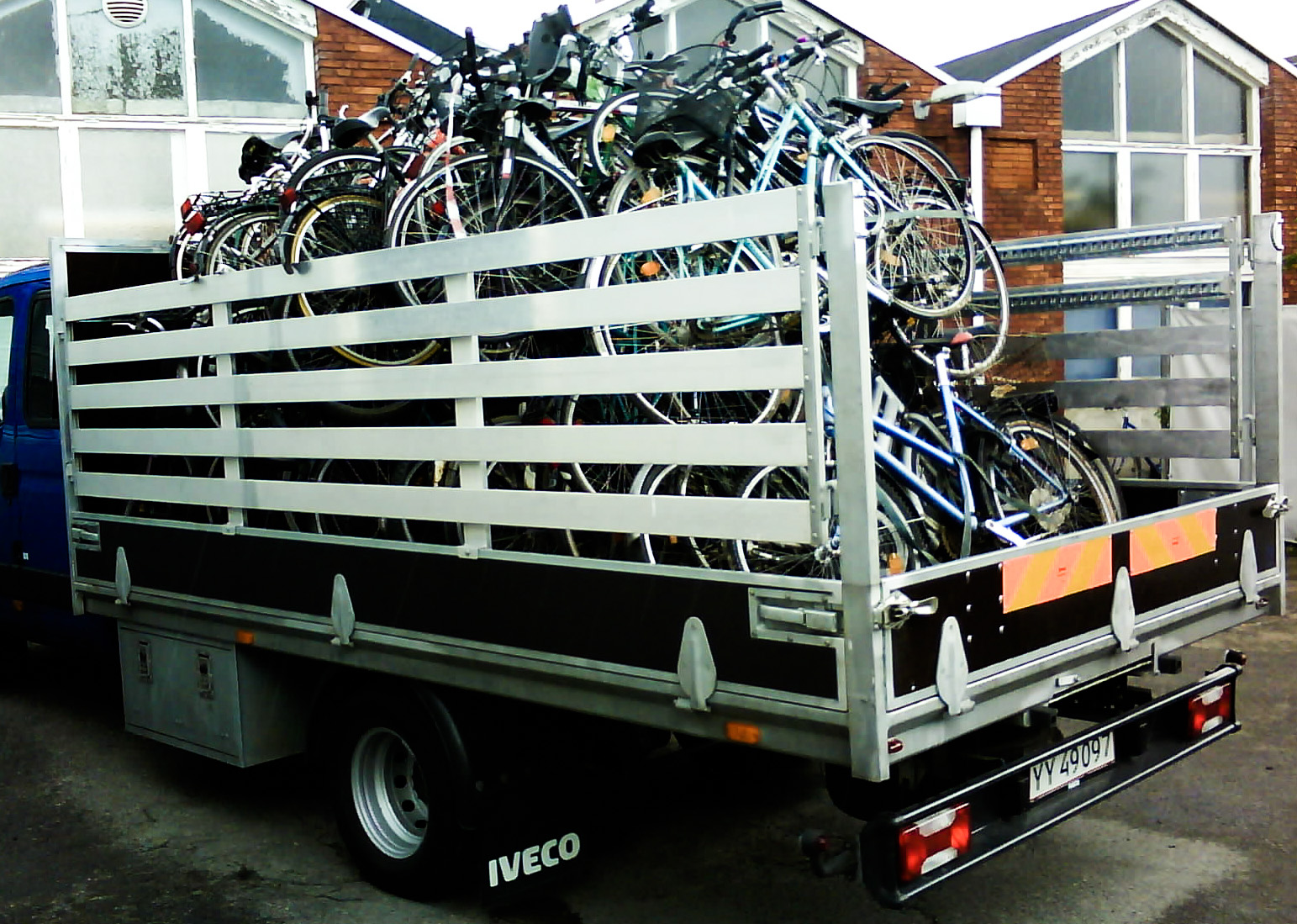 Copenhagen authorities vehicle (IVECO Daiy 65C 18D), used to pick up abandoned cycles in Copenhagen. Approximately 13,000 bicycles are abandoned each year on public streets in Copenhagen source.